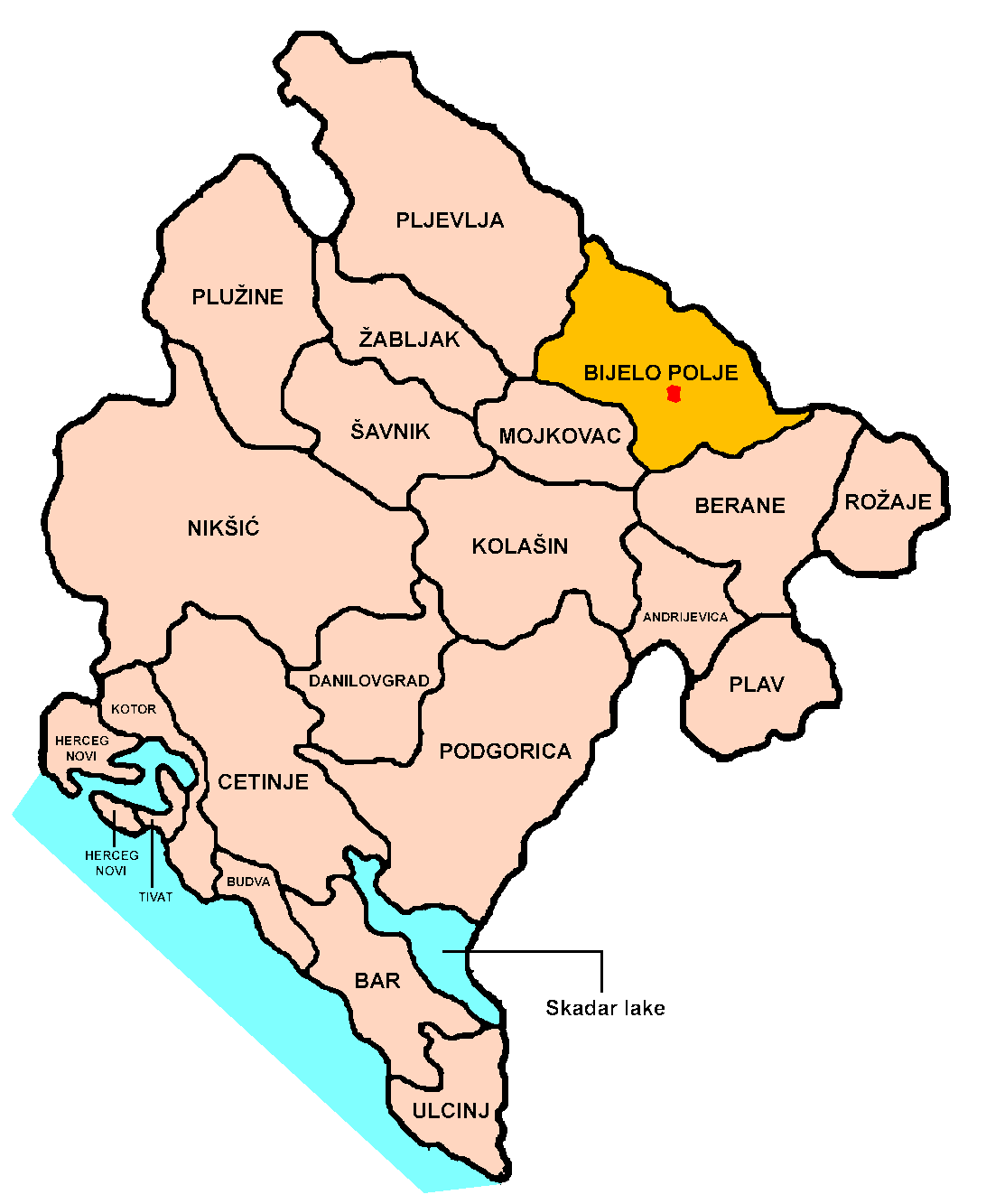 Location of Bijelo Polje town and municipality within Montenegro